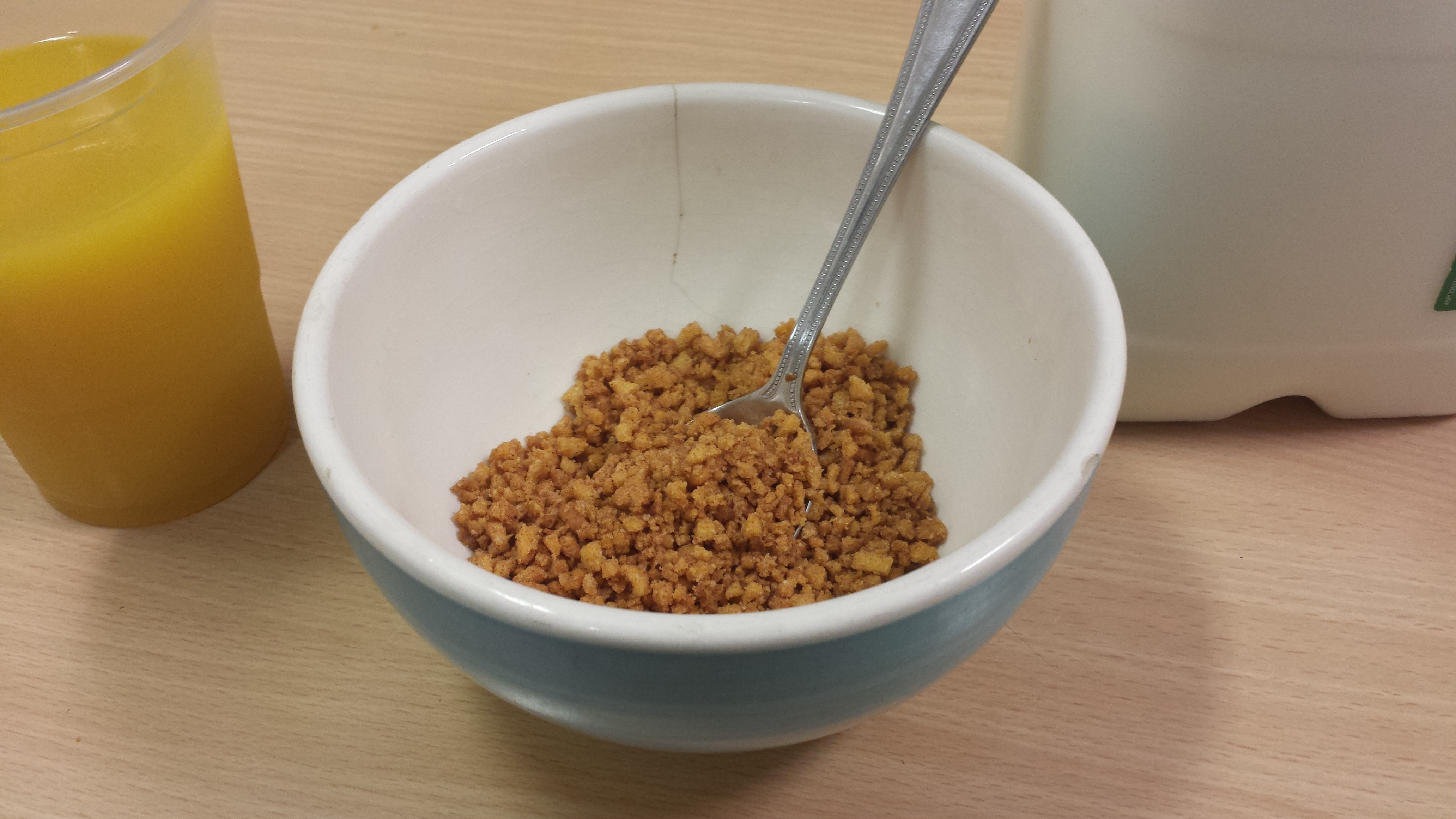 Bacon bits in a bowl